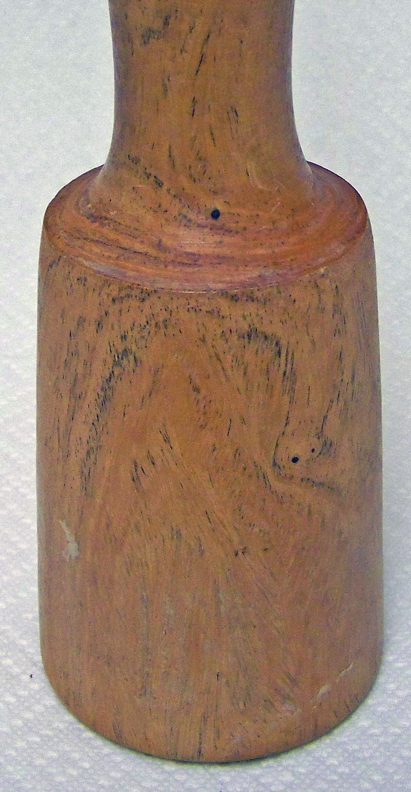 Cropped version of picture on English Wikipedia: Summary Description A woodcarver's mallet made of lignum vitae from Haiti DateSourceOwn workAuthorDisputantum (talk) Licensing A woodcarver's mallet made of lignum vitae from Haiti